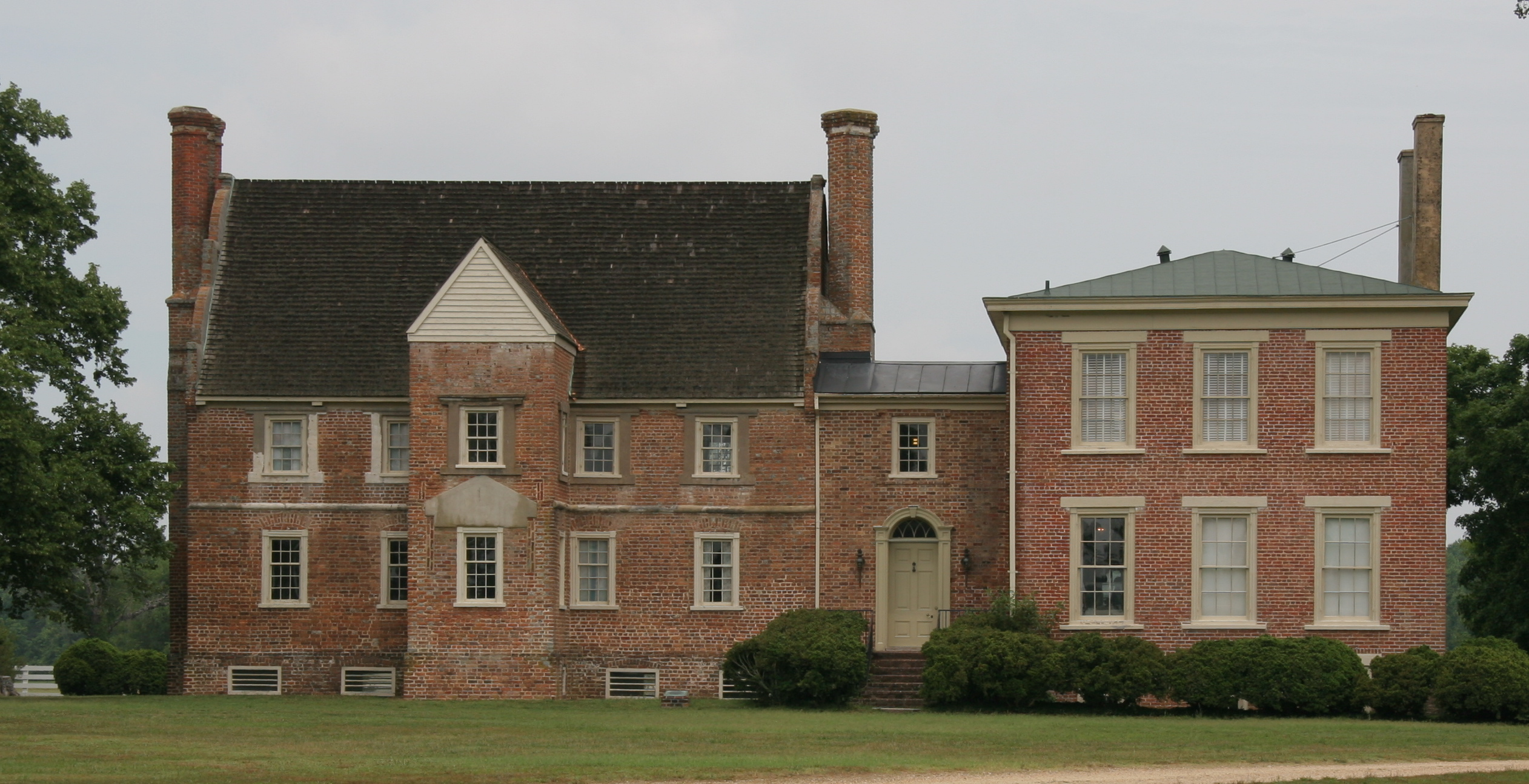 Bacon's Castle, brick four-story farm house built c.1660 and owned by the Allen Family of Surry, Virginia.